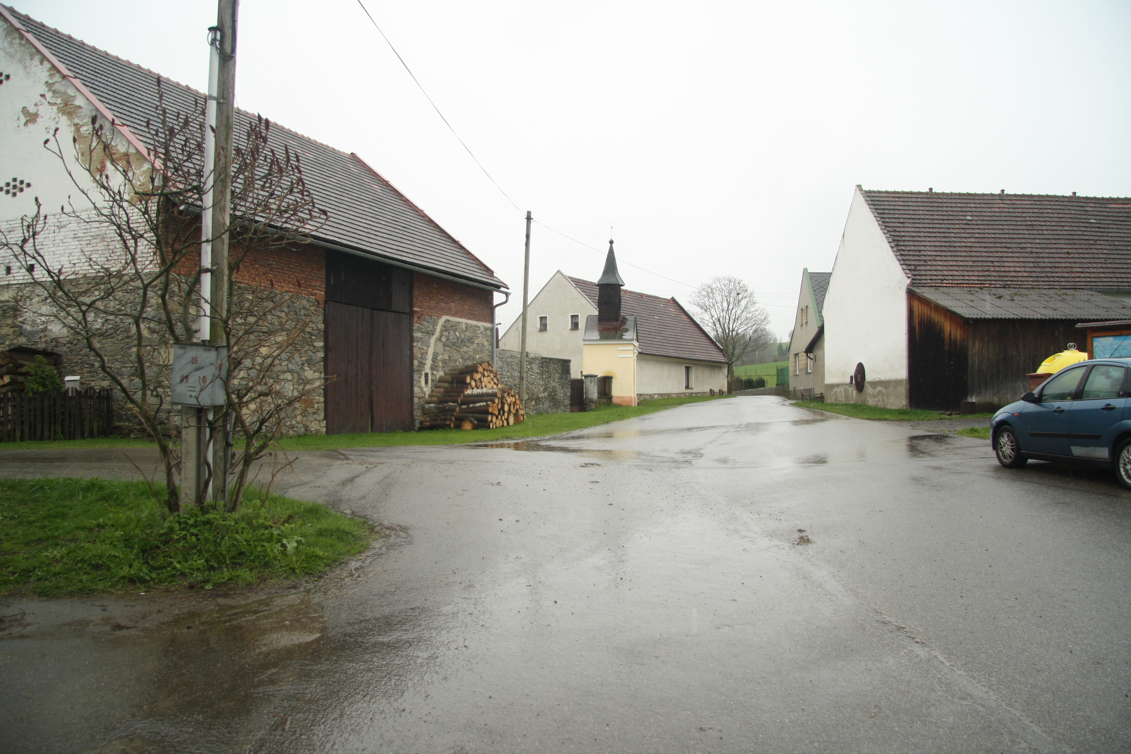 Center of Posobice, Petrovice u Sušice, Klatovy District.